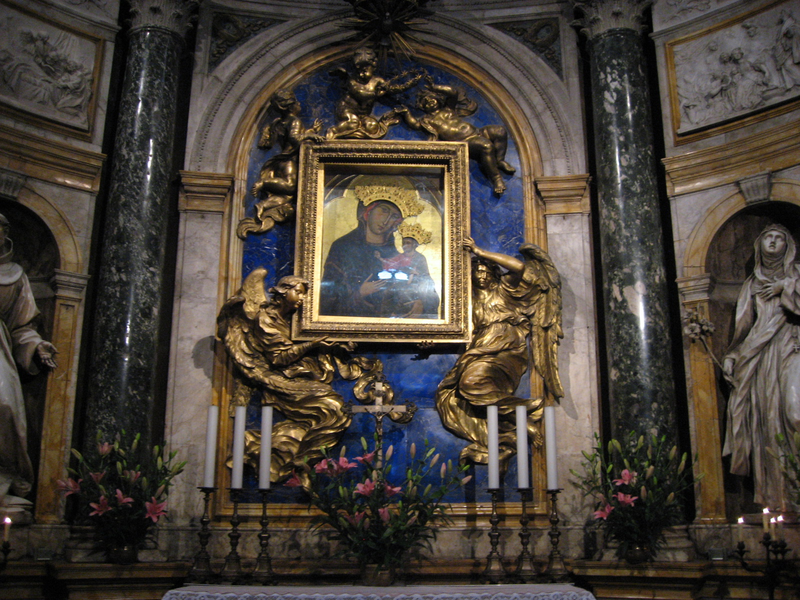 Side chapel with Madonna inside Siena Cathedral